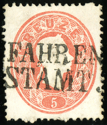 Austrian KK 5 kreuzer stamp, issue 1861, cancelled in a railroad train post-office.